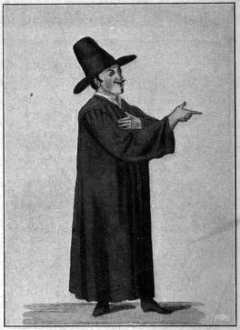 Carl Fredrik Berg as Crispin medicus.